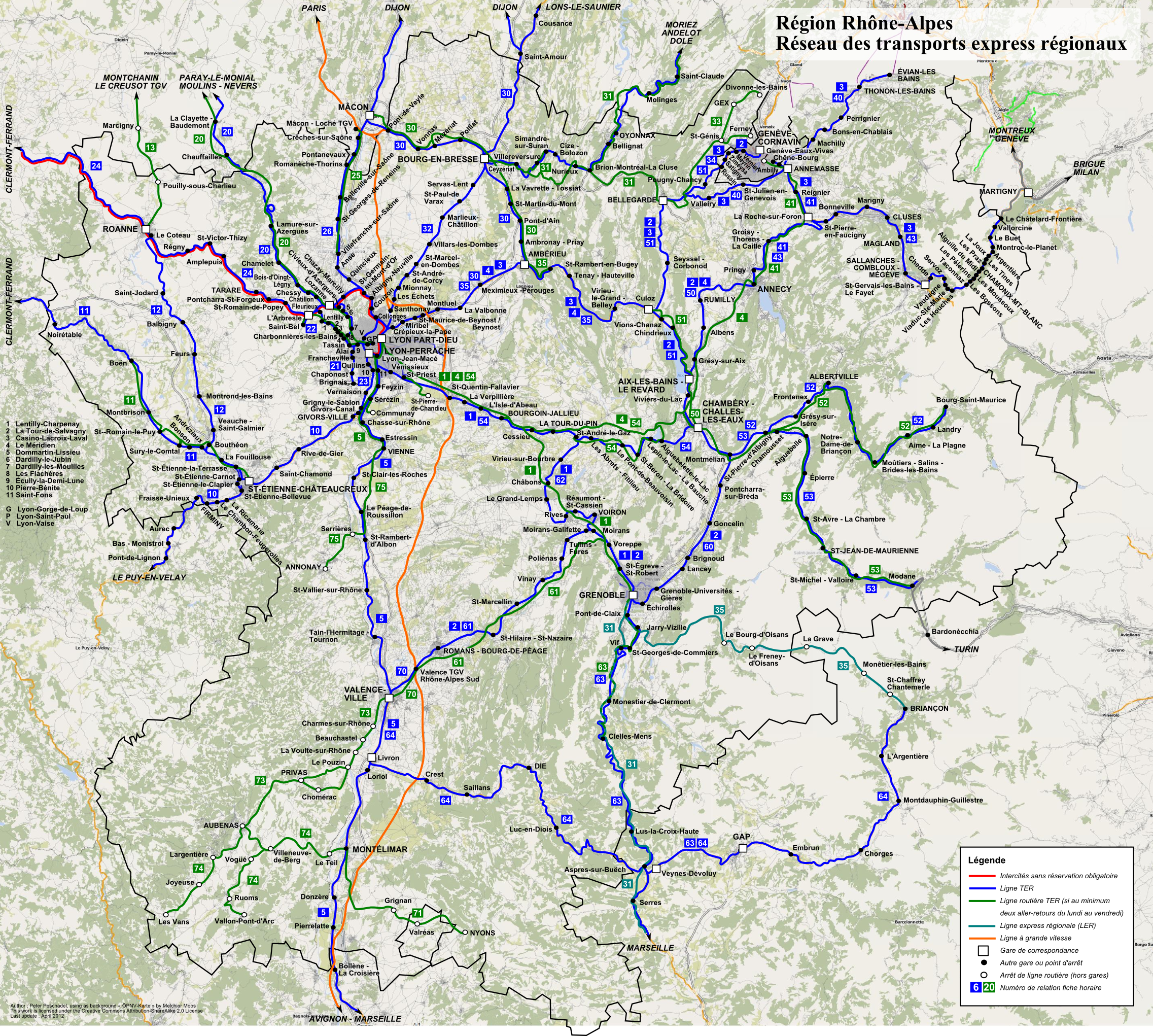 Region Rhône-Alpes, regional transport network (TER) et regional express coach lines (LER)